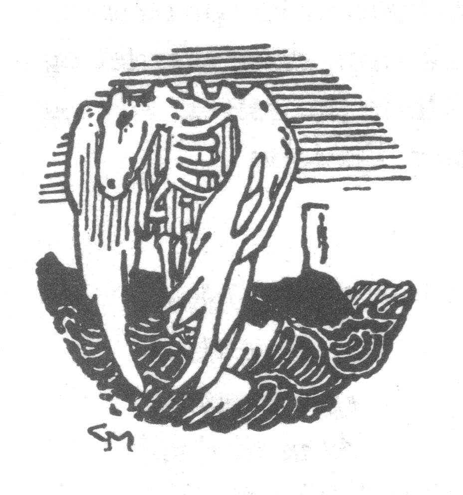 Gerhard Munthe: Illustration for Ynglingesaga. Snorre 1899-edition. 14